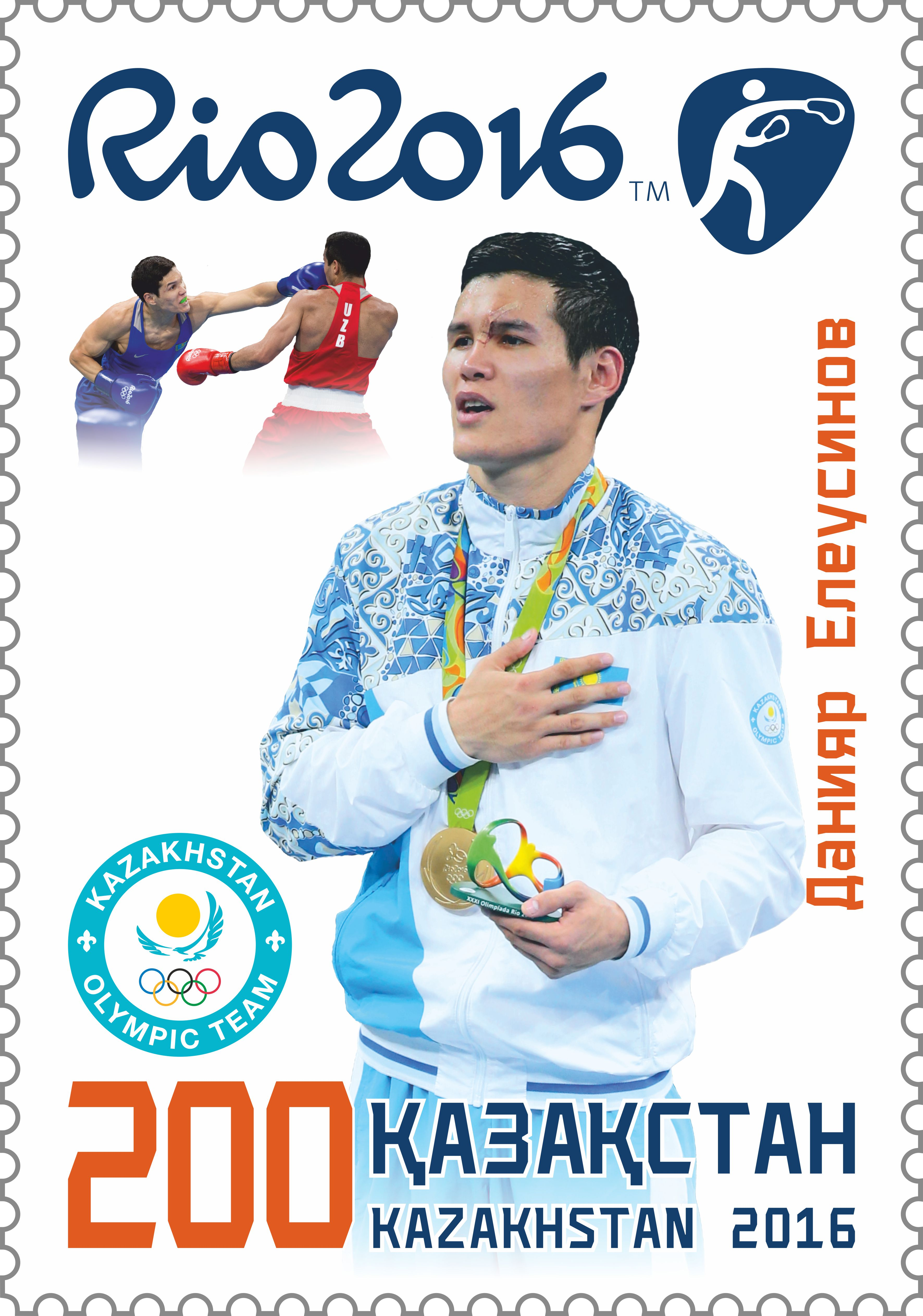 1004-1011. Sports. The XXXI Olympic Games in Rio de Janeiro.